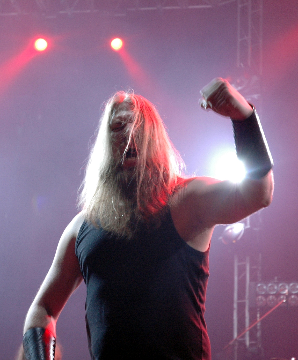 Johan Hegg from Amon Amarth at Metalmania Festival 2005 in Poland